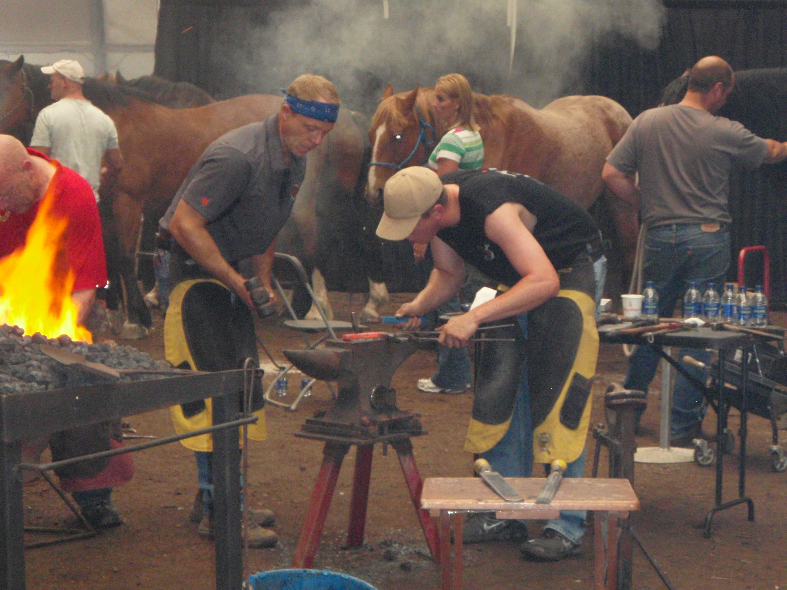 Modern day blacksmiths at the 2010 World Champion Blacksmiths' Competition held at the Calgary Stampede.